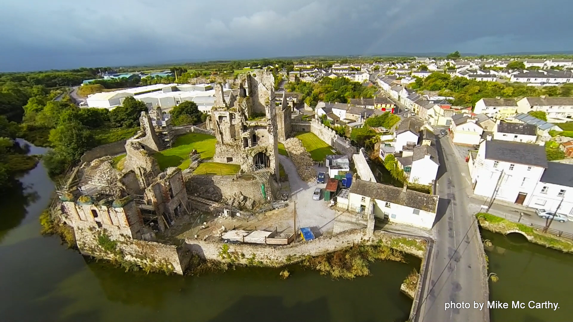 Askeaton Castle